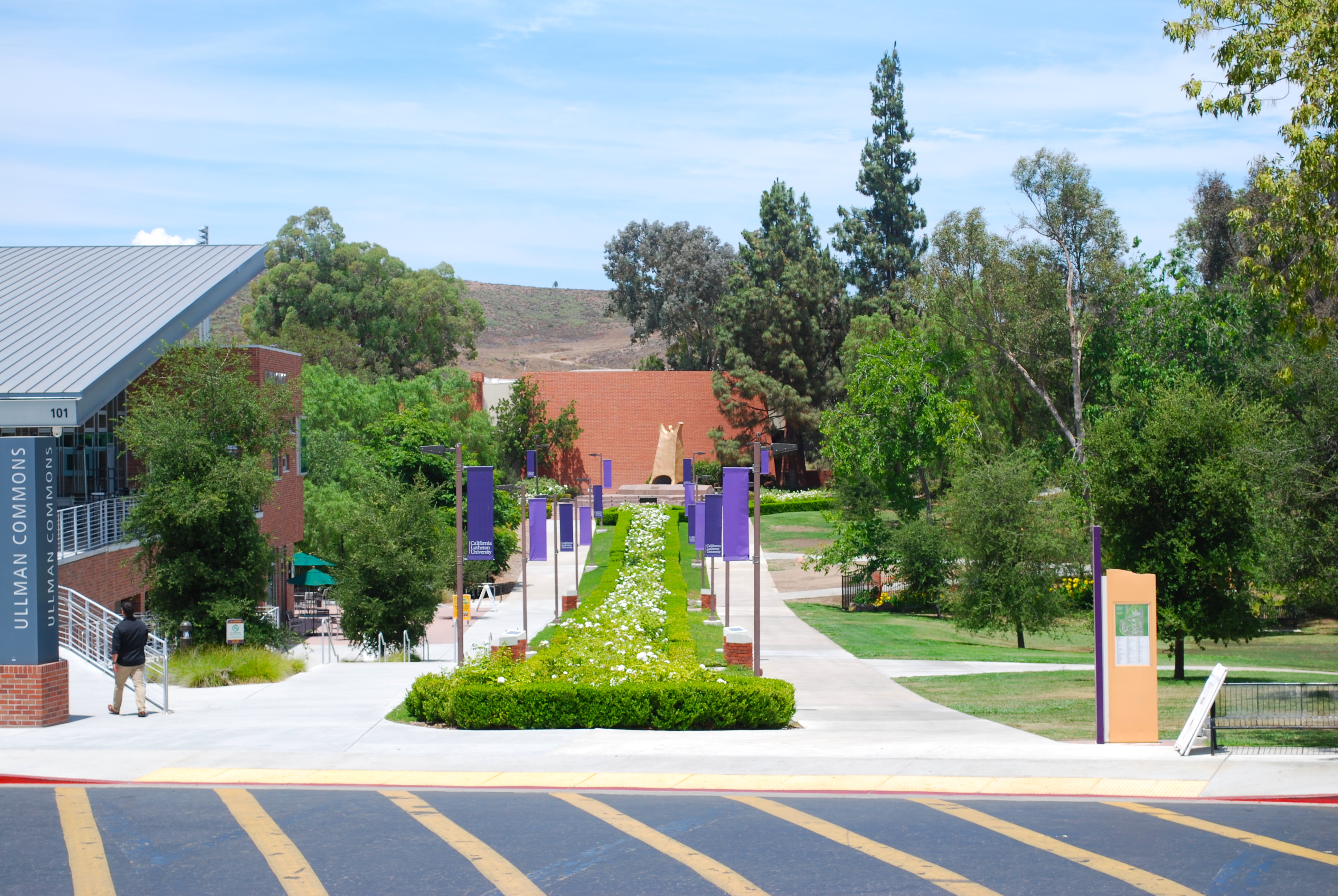 Regals Way, California Lutheran University (CLU) as seen from flagpoles.